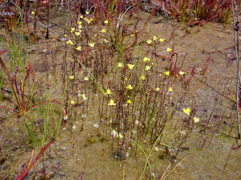 Utricularia subulata, naturalized population in Mendocino county, California.